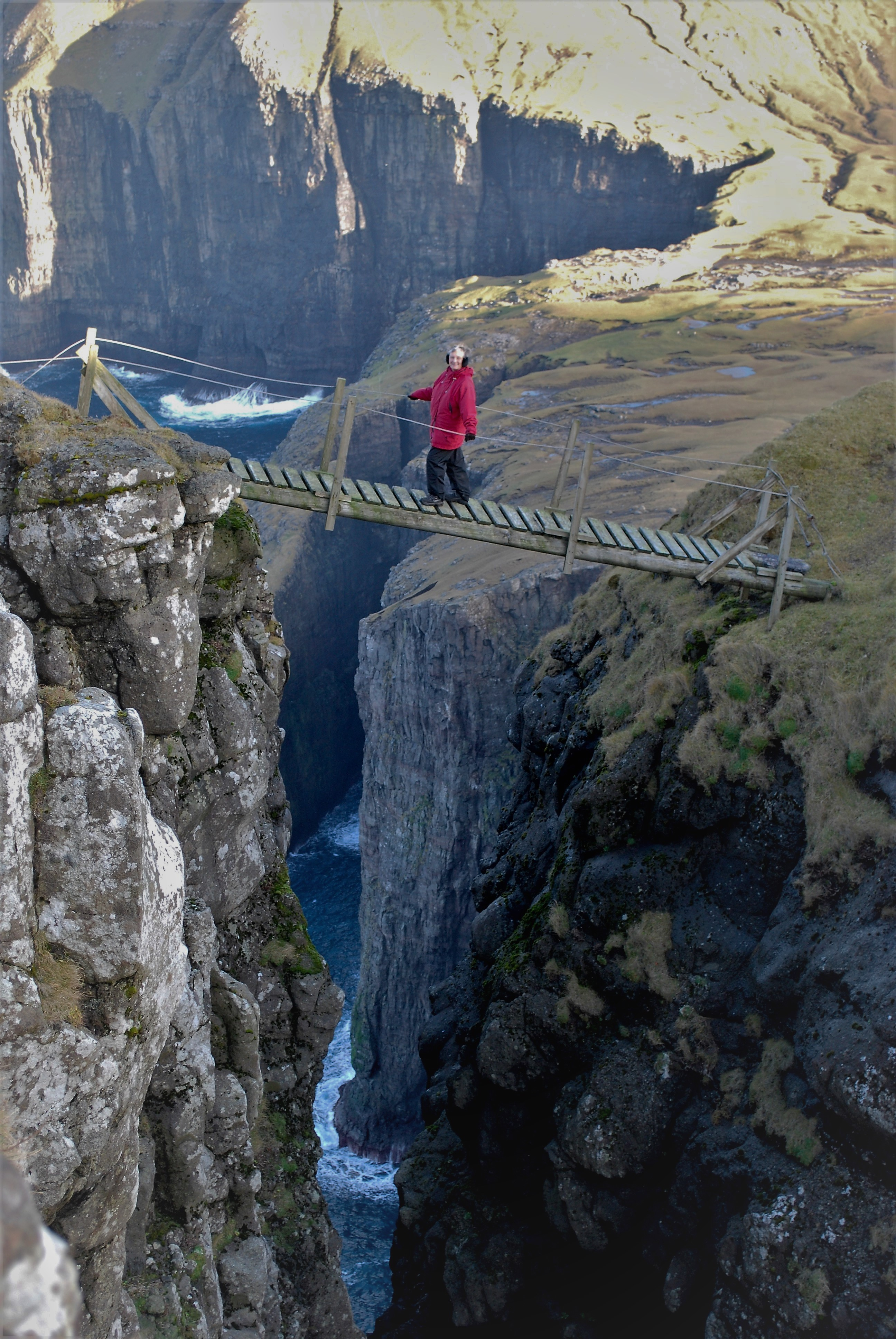 The bridge to út í Rituskor - Tvørgjógv - Sandvík - Suðuroy, Faroe Islands